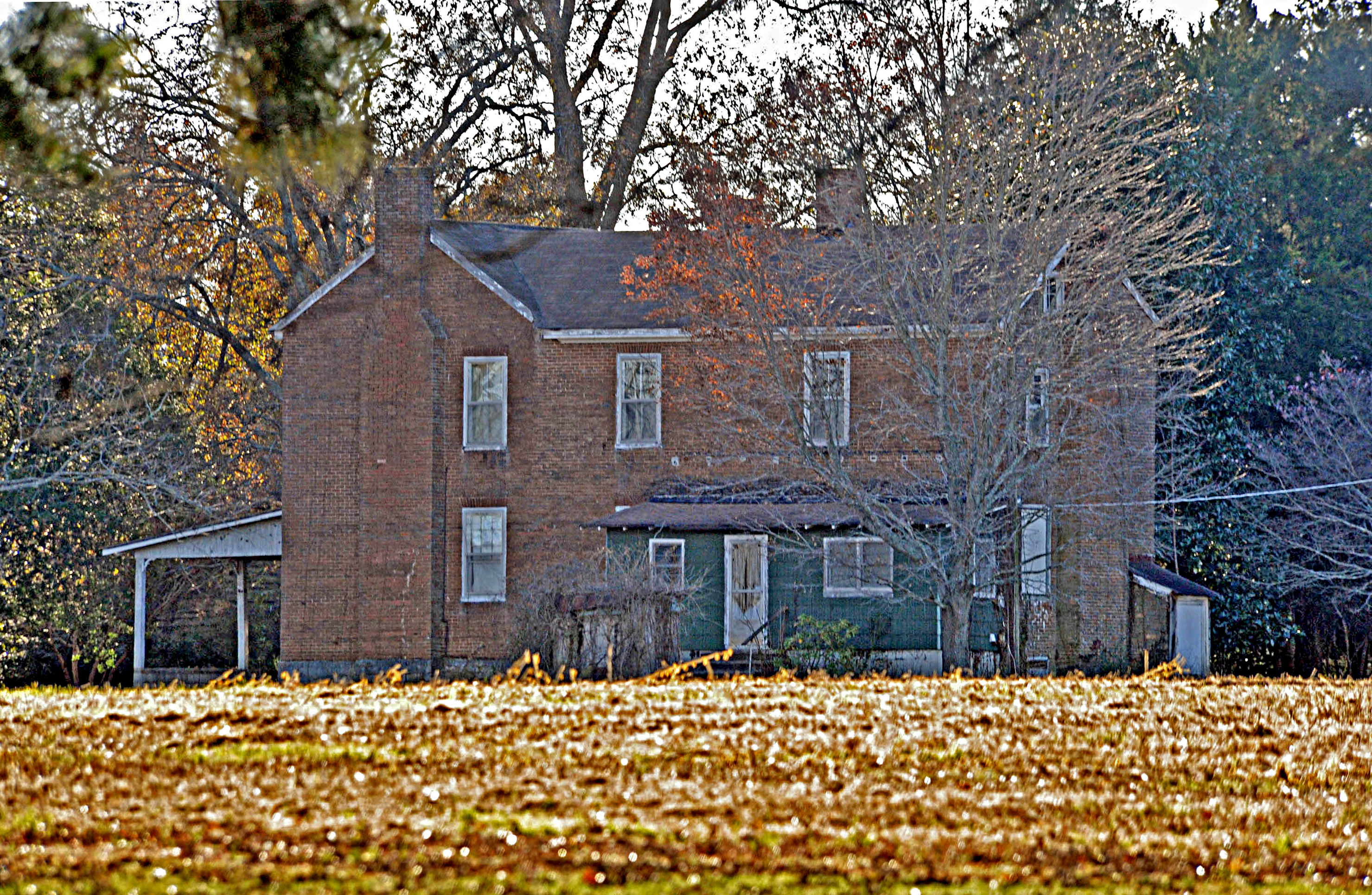 CIRCA 1820; PLANTATION STAYED IN THE FORD FAMILY UNTIL 1904. IN 1911 IT WAS SOLD TO STEPHEN H. COUNTESS OF TUSCALOOSA AND THE LAND IS STILL OWNED BY THE FAMILY AND FARMED ALTHOUGH THE HOUSE IS UNOCCUPIED